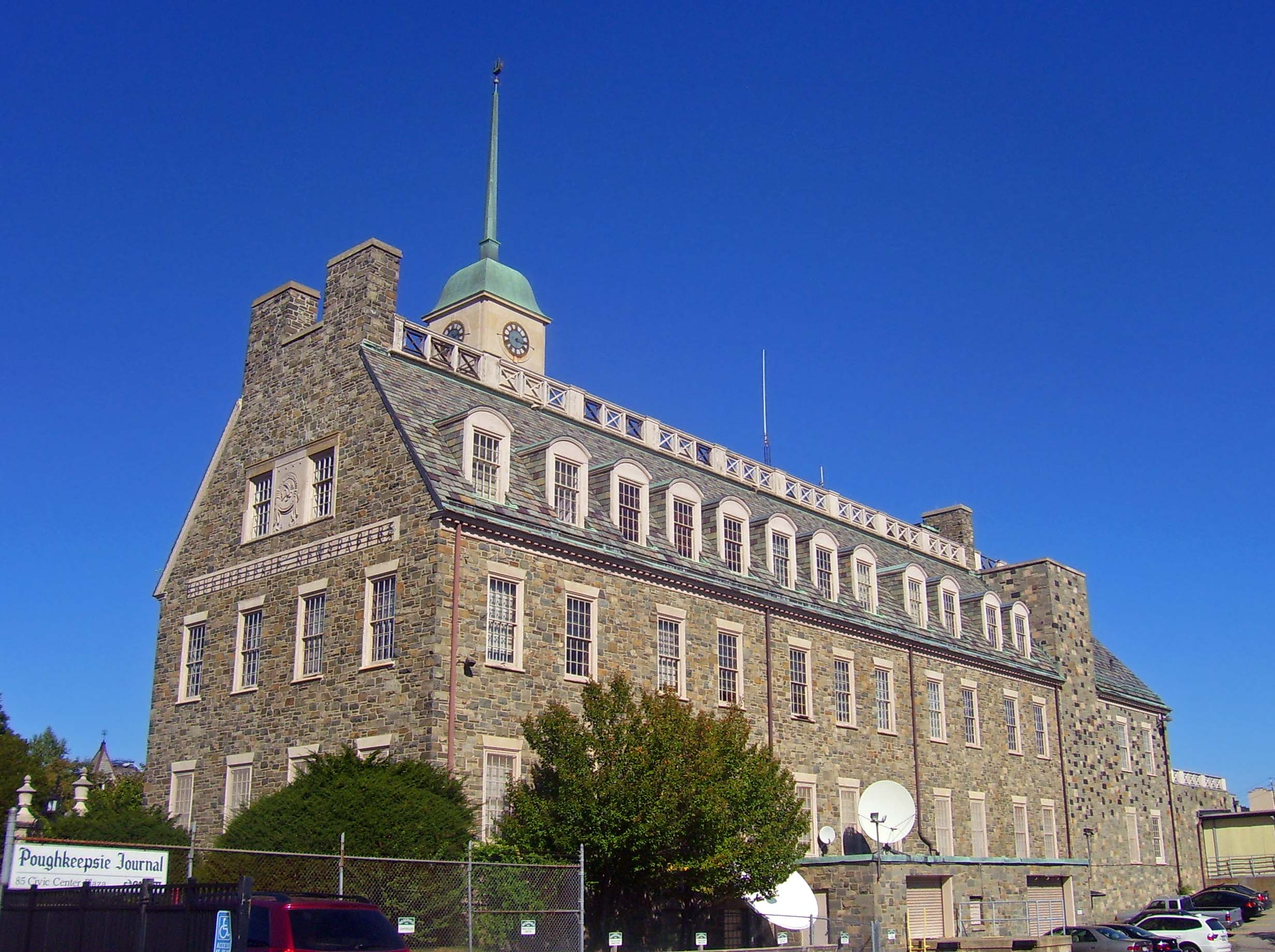 The Poughkeepsie Journal building at 85 Civic Center Plaza in Poughkeepsie, NY, USA. 82005069